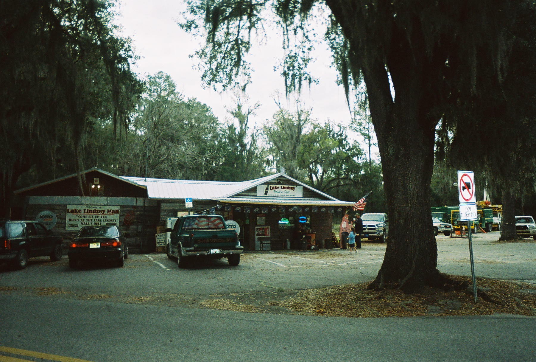 Close-up image of the "Lake Lindsey Mall," actually the local general store/convenience store in Lake Lindsey, Florida on the northwest corner of Hernando County Road 481 and 476. Outside of farming, and a church or two, this is really the only local business in Lake Lindsey.